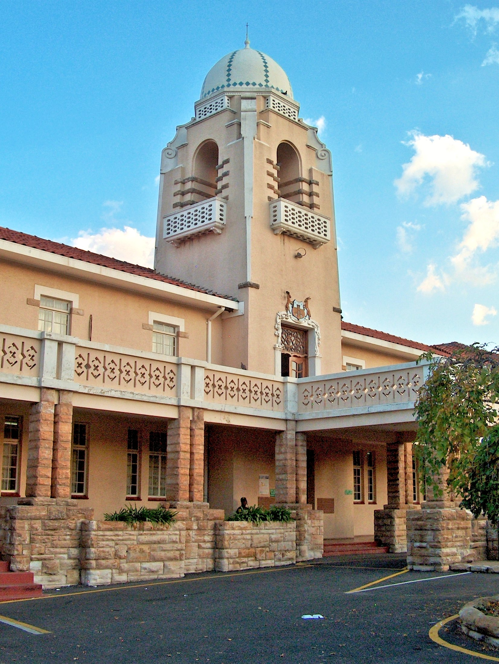 The City Hall in Heidelberg, Gauteng, designed by Gerard Moerdijk, 1937 /